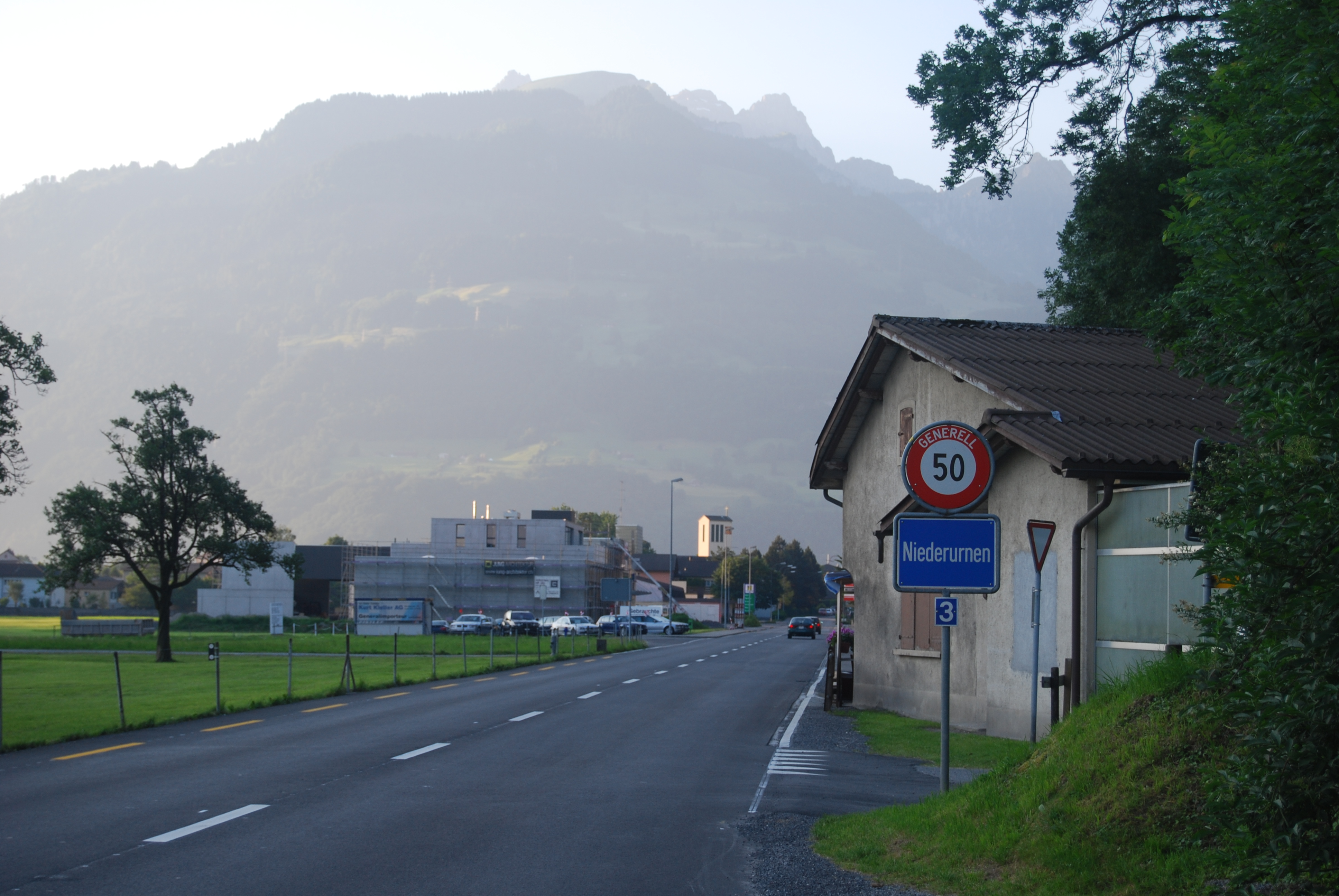 Niederurnen, canton of Glarus, SwitzerlandEsperanto: Niederurnen, Kantono Glaruso, Svislando